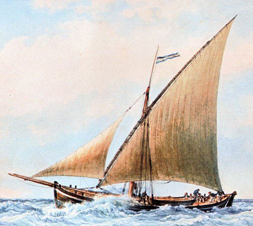 Francois Roux. Mediterranean Tartan and other vessels in a strong breeze. 1879. Fragment